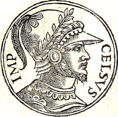 Titus Cornelius Celsus, Roman usurper under Gallienus, one of the Thirty Tyrants enumerated by Trebellius Pollio.